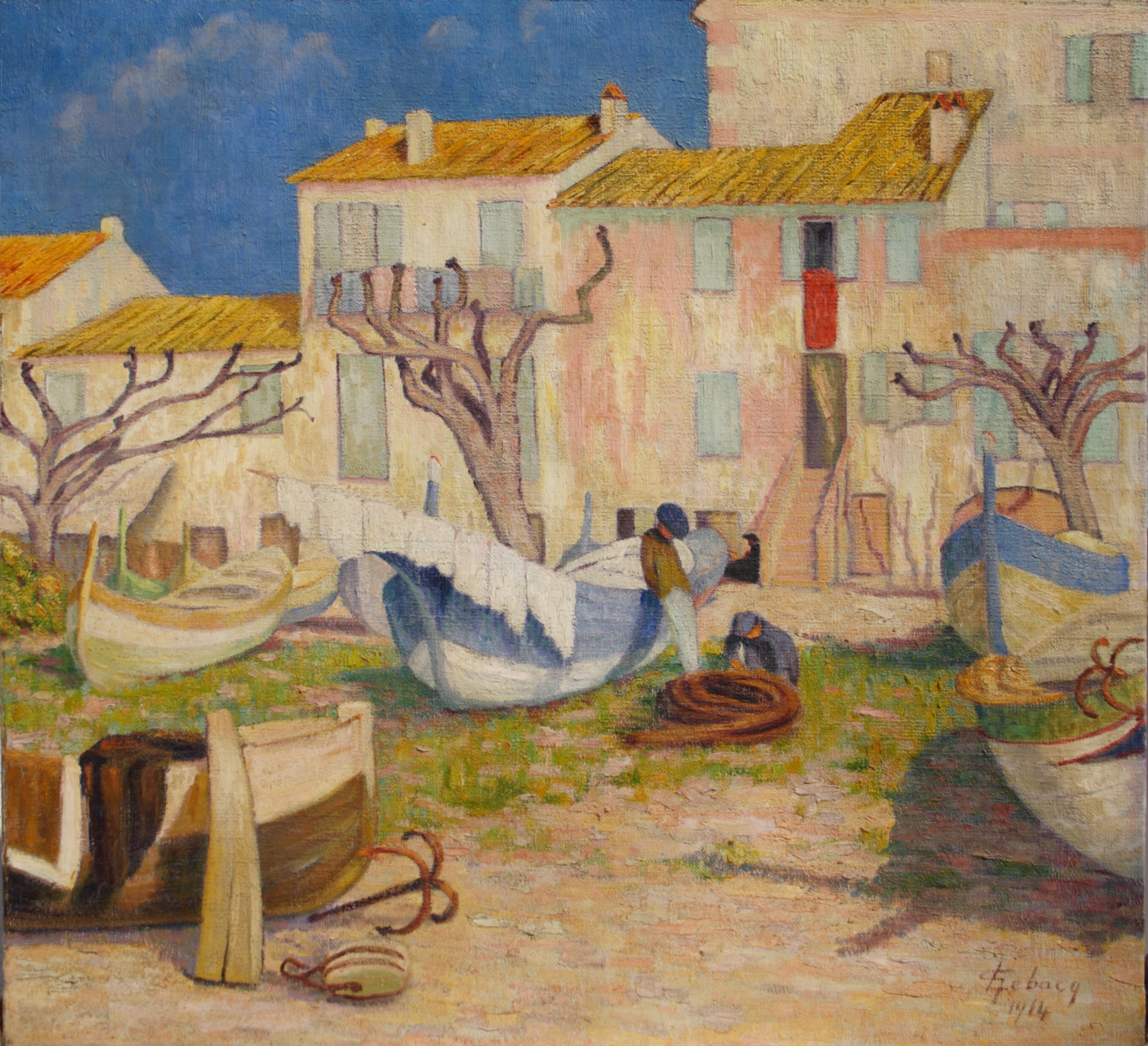 A Cros de Cagnes (Provence) by Georges Emile Lebacq.